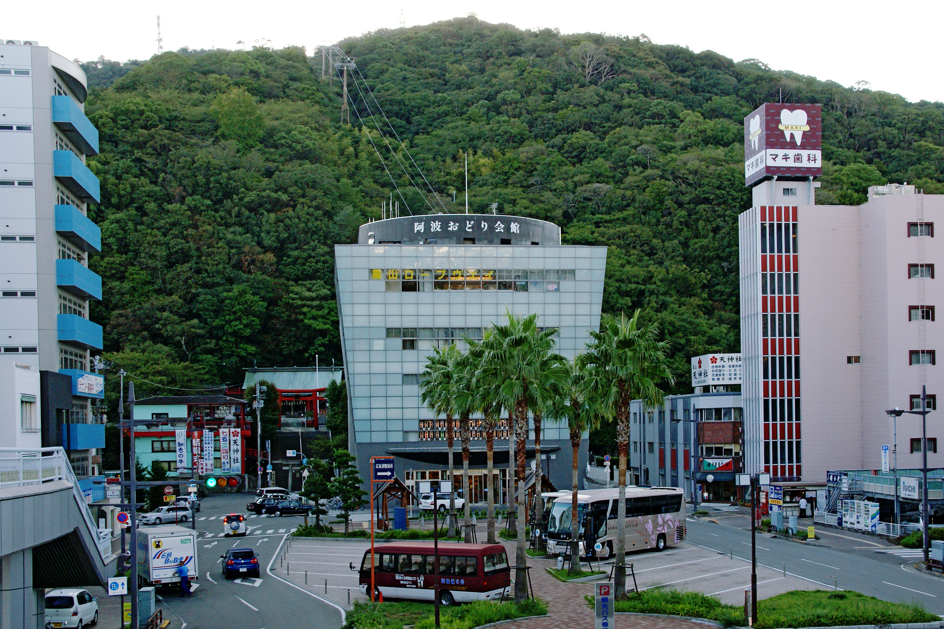 Awa Dance Memorial Hall in Tokushima, Tokushima prefecture, Japan